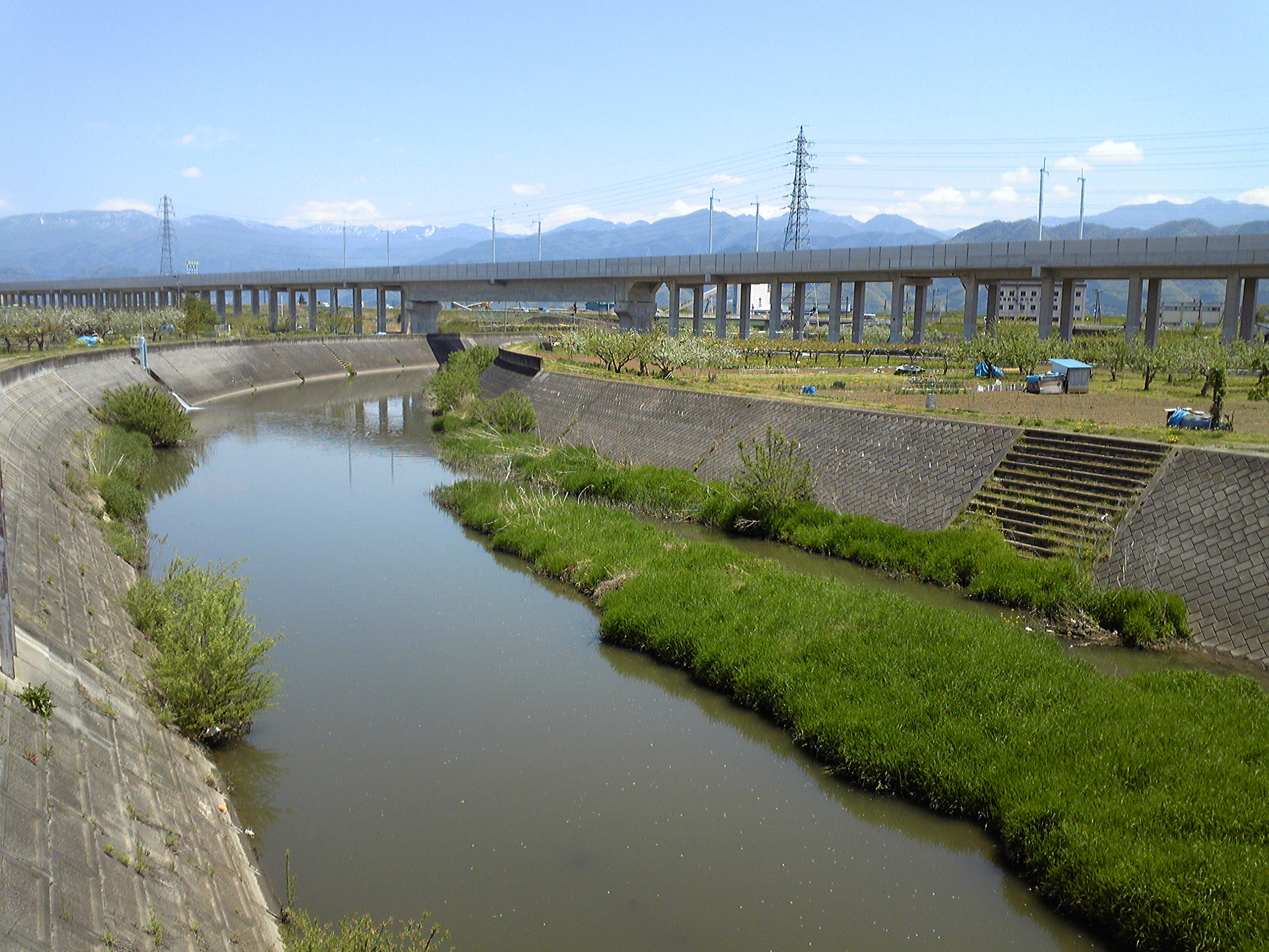 Asa River in Nagano Japan.